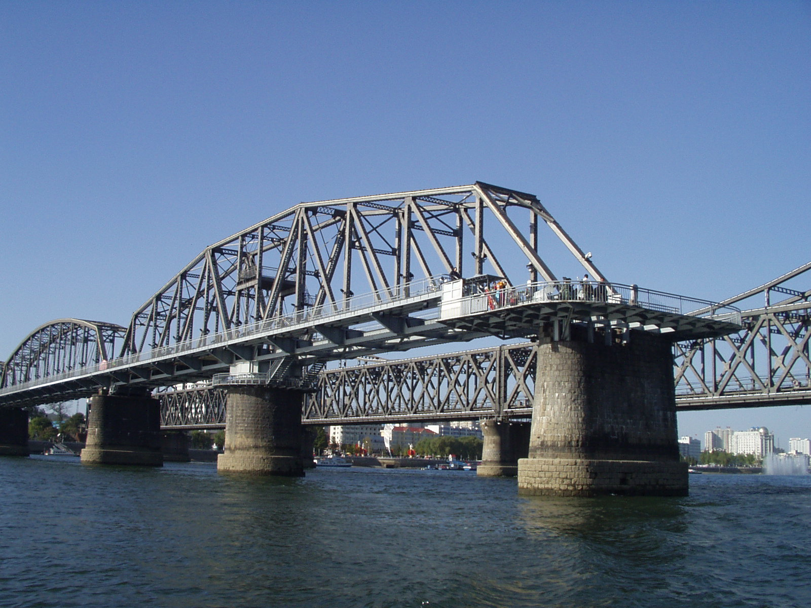 The south end of the Yalu River Broken Bridge, a former railway bridge that once connected China and North Korea until part of the bridge was destroyed. A viewing platform has been constructed at this end, which is the south end of the bridge's former swing span.